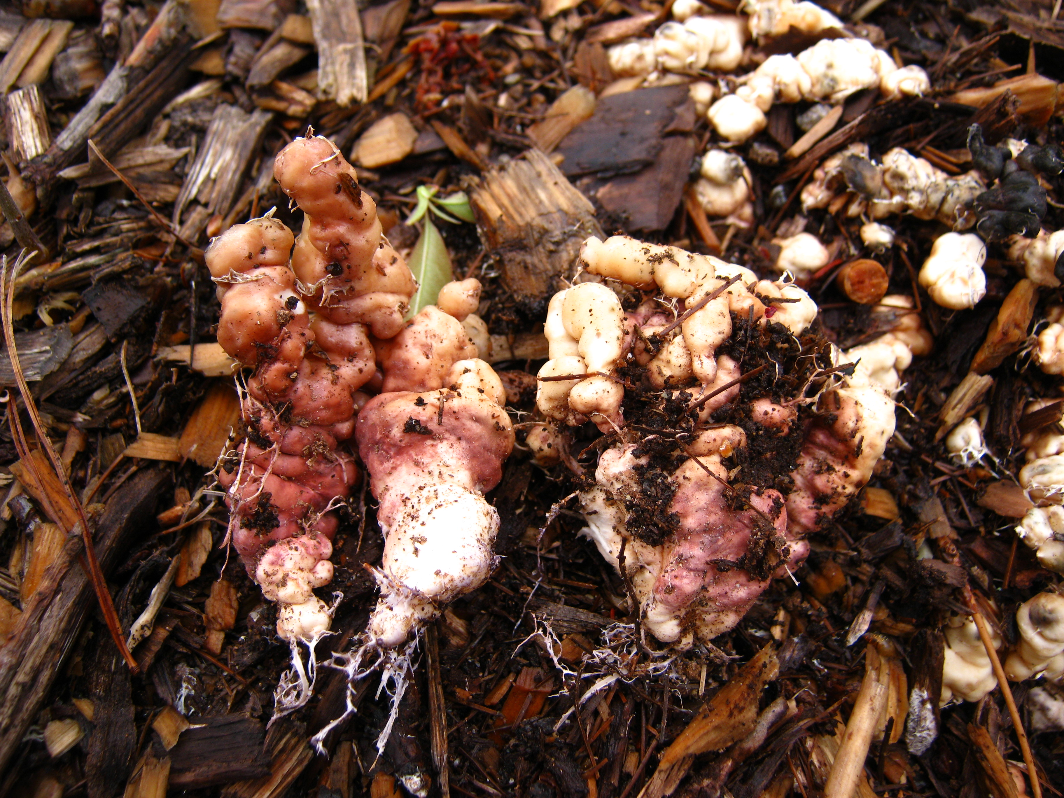 Rhizomorphs and sclerotia of the stinkhorn fungus Phallus ravenelii Berk. & M.A.Curtis. Specimens found in Maine, USA.